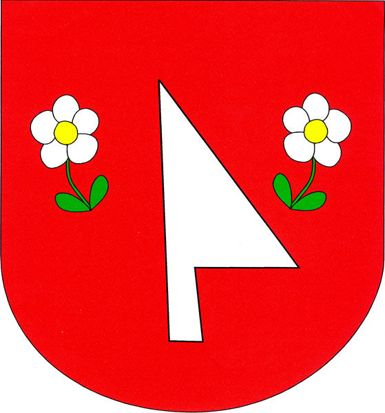 Coat of arms of the village of Nový Přerov, Czech Republic.